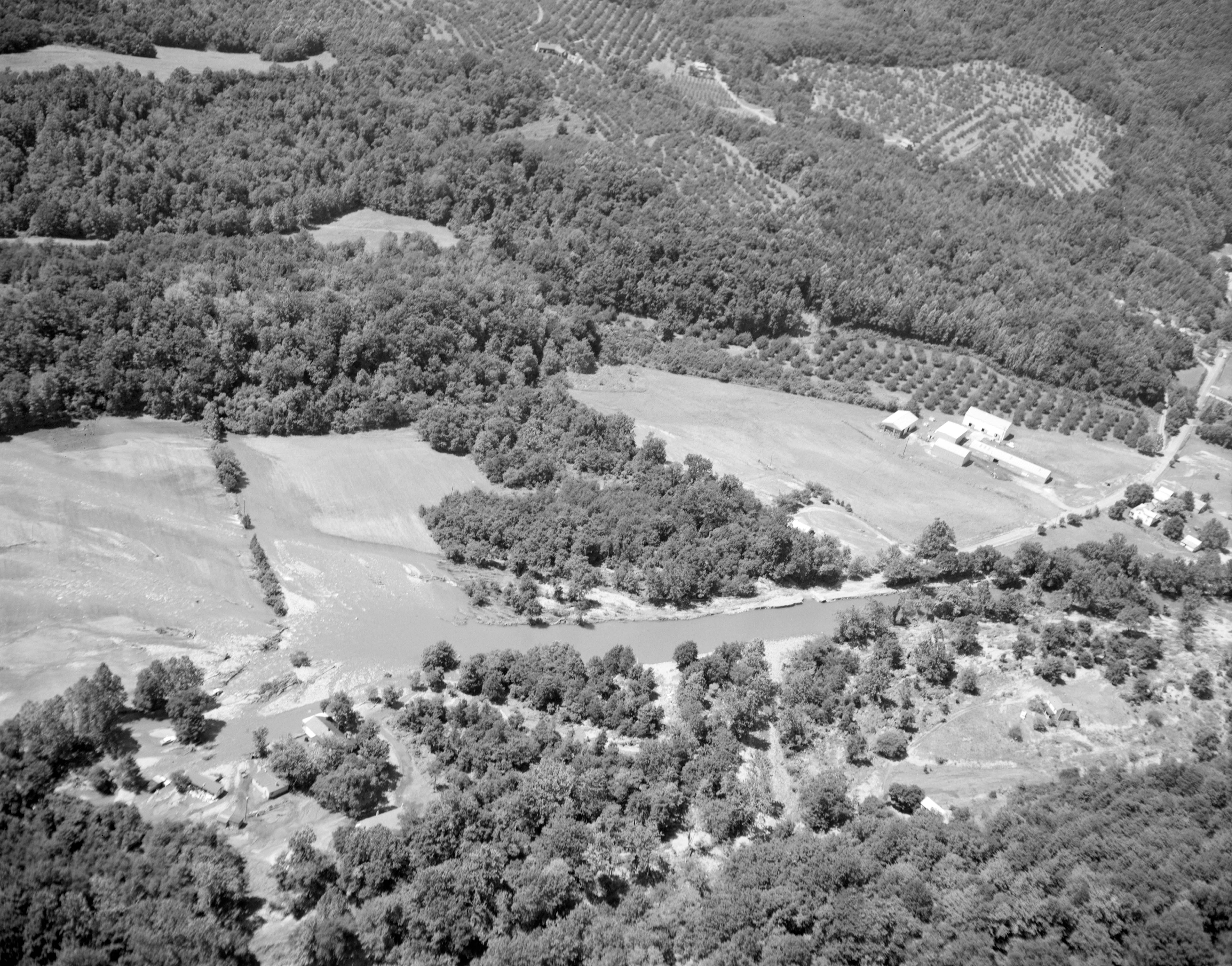 This aerial image shows the Tyro area in Nelson County. Rt. 56 runs along the Tye River, which flooded many homes in the area. Severe flash flooding caused fatal mudslides in Nelson. No. 69-2168, Virginia Governor's Negative Collection, Library of Virginia.